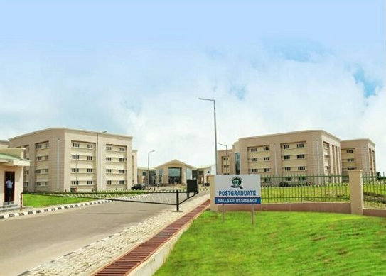 Post Graduate Halls of Covenant University